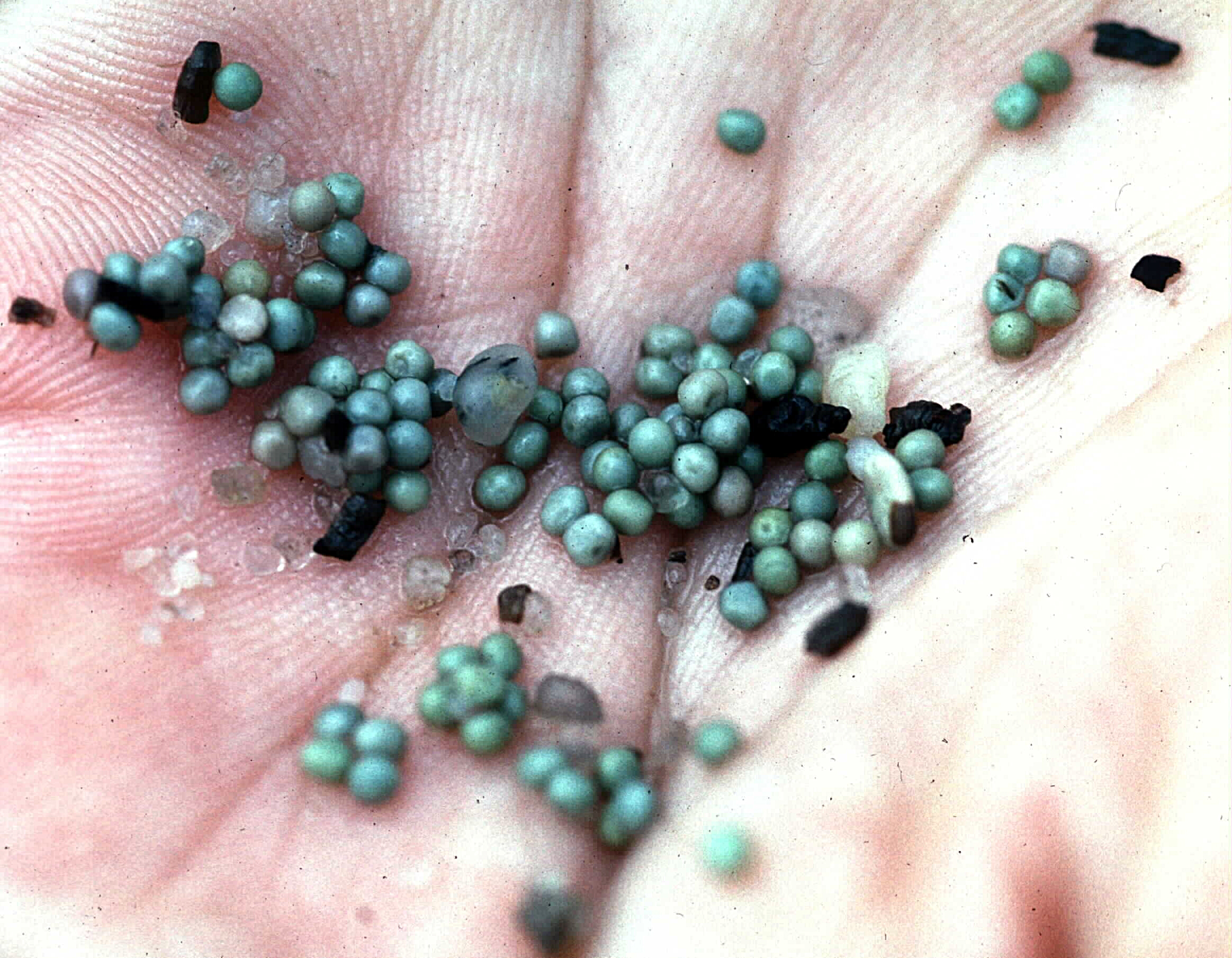 Mispillion Harbor, Delaware. Credit: Gregory Breese/USFWS